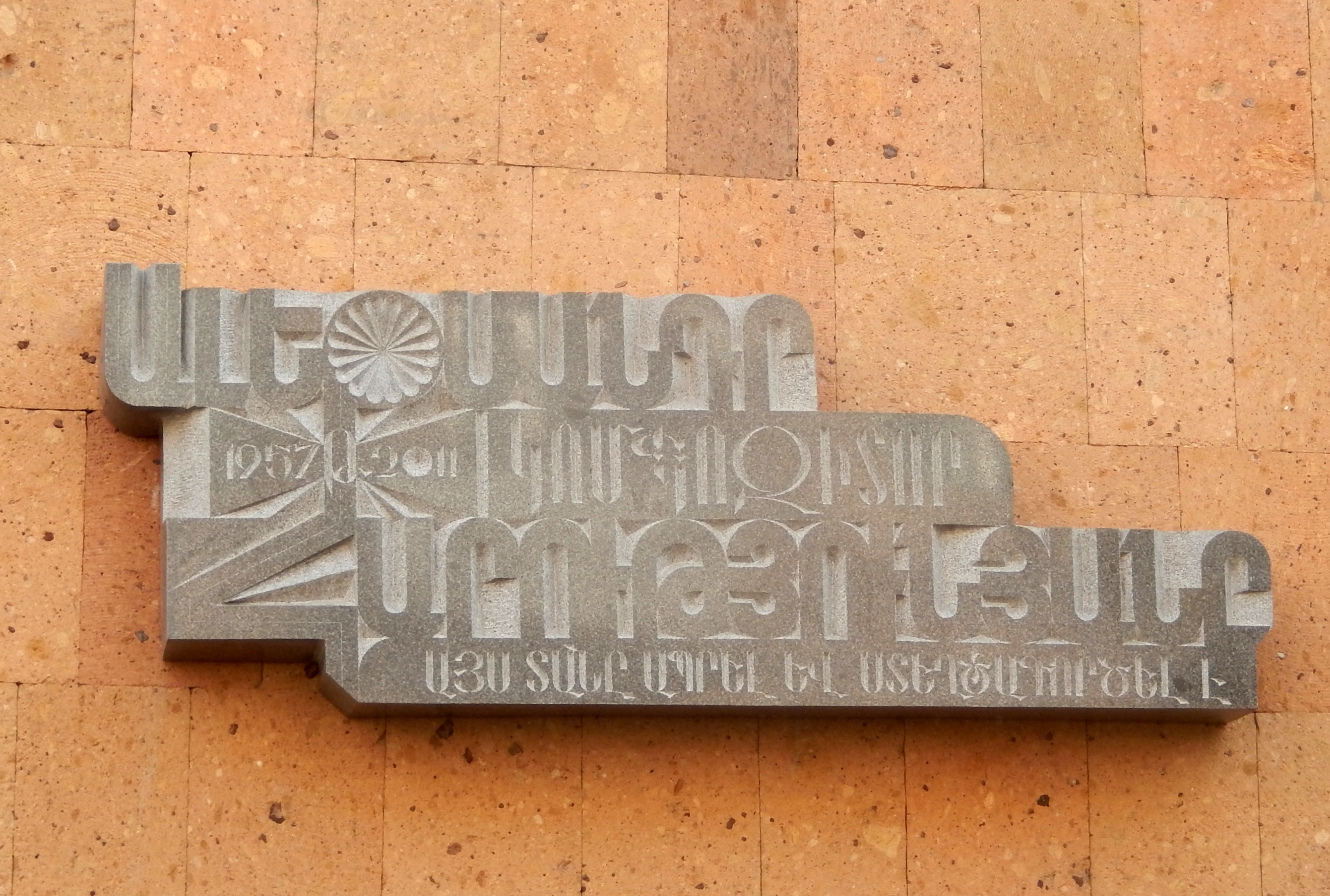 Alexandr Harutyunyan plaque